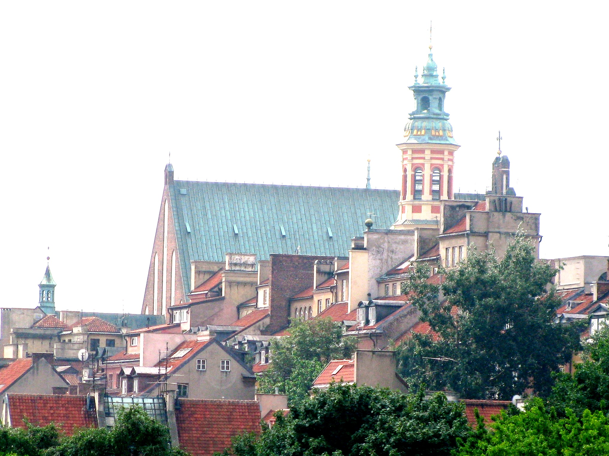 Cathedral of Saint John and Jesuit Church Tower, Warsaw (Warszawa). The Scotch Mist Gallery contains many photographs of historic buildings, monuments and memorials of Poland.